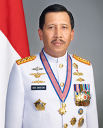 Official picture of Commander in chief Agus SuhartonoBahasa Indonesia: Foto resmi Laksamana TNI Agus Suhartono sebagai Panglima TNI